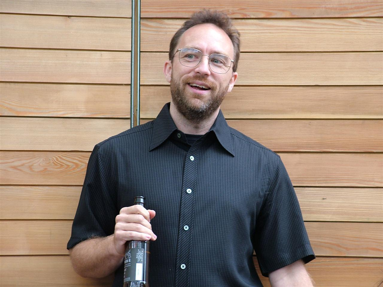 Jimmy Wales addresses Wikipedia:Meetup/London 1.